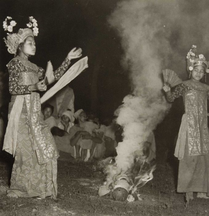 Sang Hyang dans